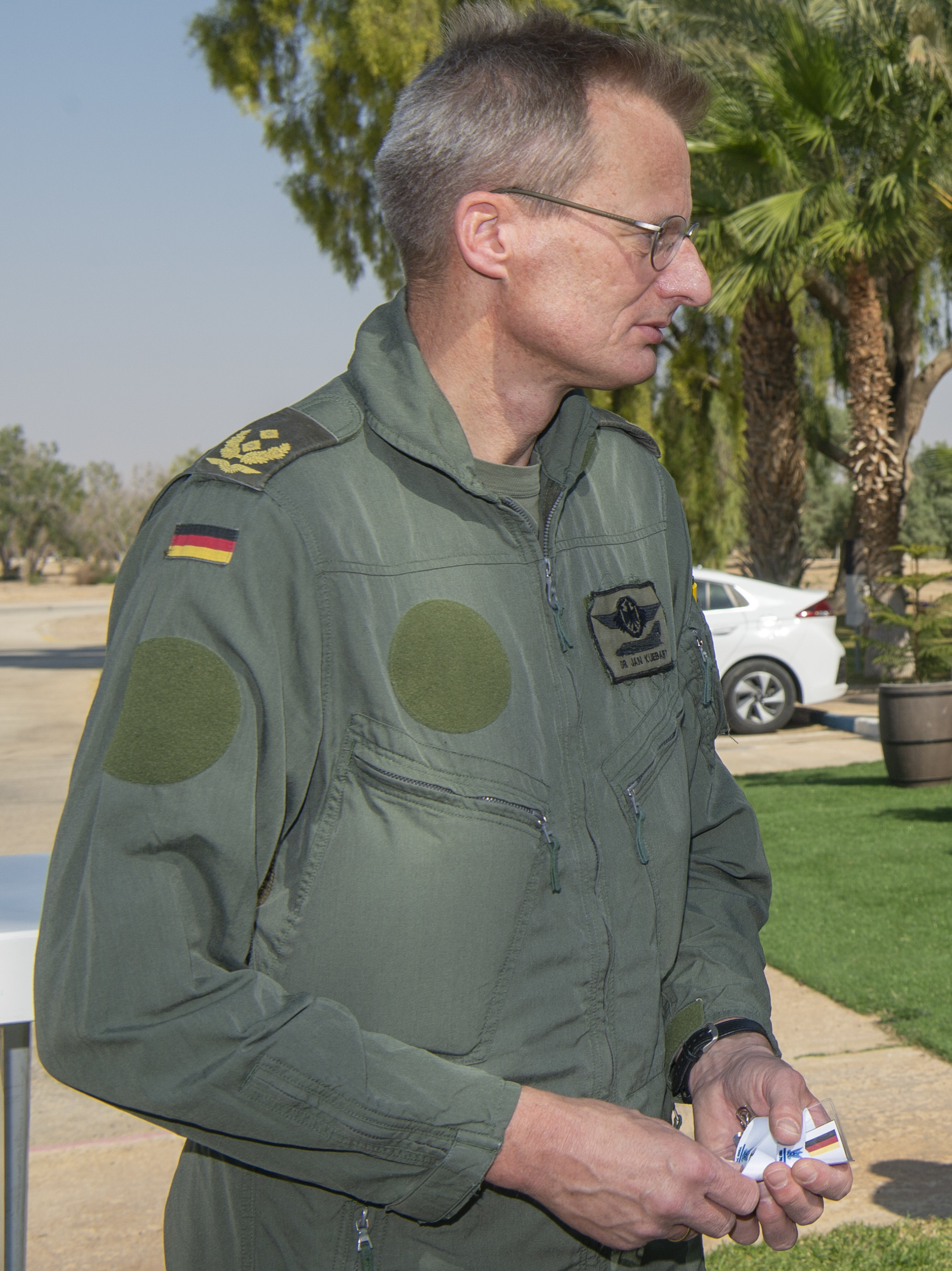 U.S. Air Force Lt. Gen. Steven Basham, U.S. Air Forces in Europe-Air Forces Africa Deputy Commander, Ramstein Air Base, Germany, right, speaks with Maj. Gen. Dr. Jan Kuebart, German Air Force Flying Unit’s commander, left, during Blue Flag 2019 at Uvda Air Base, Israel, November 12, 2019. Basham and Kuebart were part of a group of military leaders from Blue Flag participating countries who came to visit Airmen and observe the Blue Flag exercise. (U.S. Air Force photo by Airman 1st Class Kyle Cope).